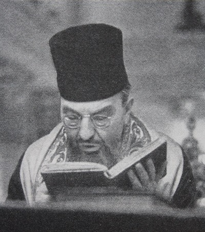 Chief Rabbi Max Friediger, having returned from Theresienstadt, presides over the first service in the synagogue in Copenhagen at itsreopening on June 22, 1945 [1].